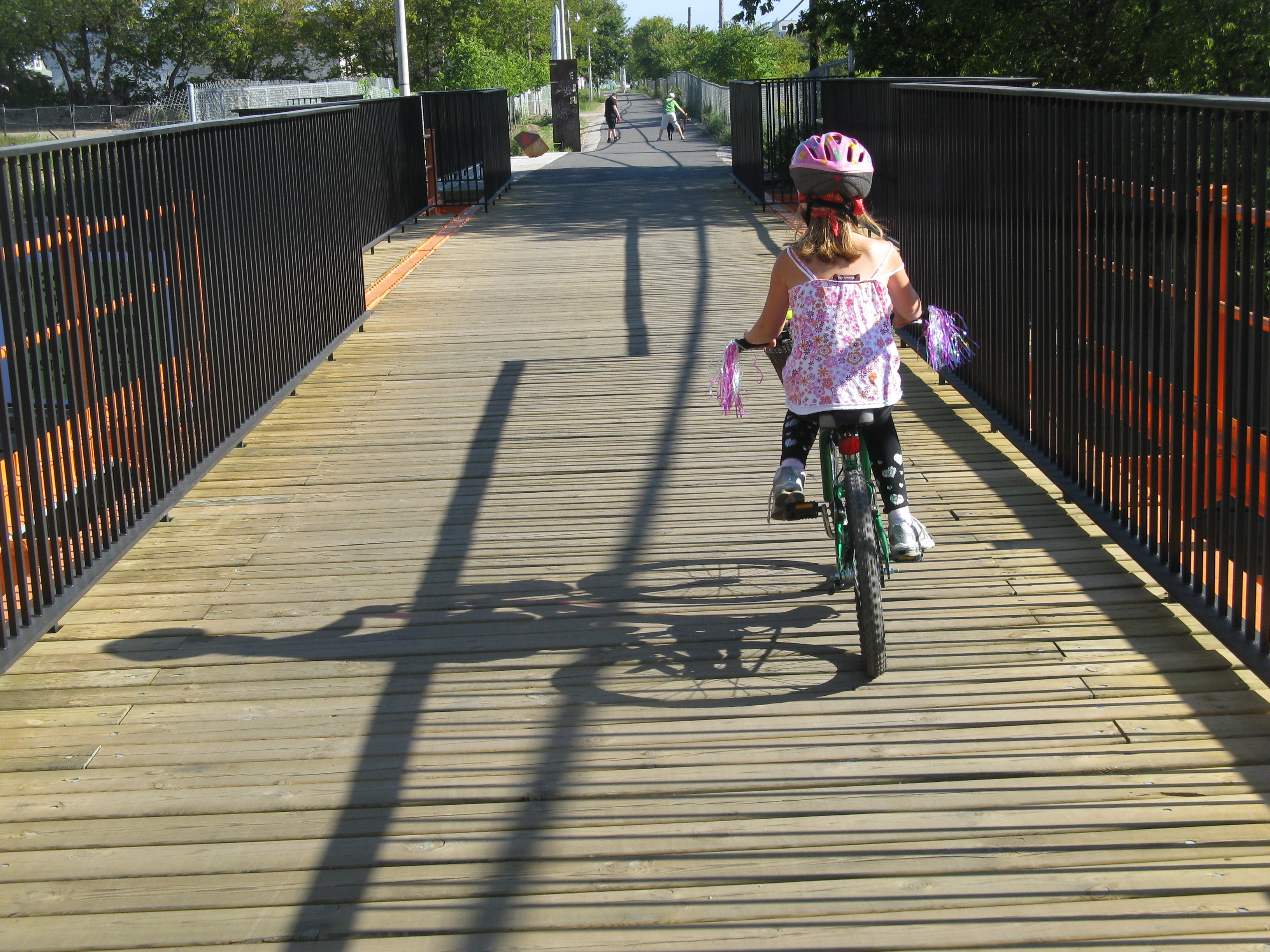 Girl cycling south on new West Toronto RailPath, on portion which passes over Bloor Street West.